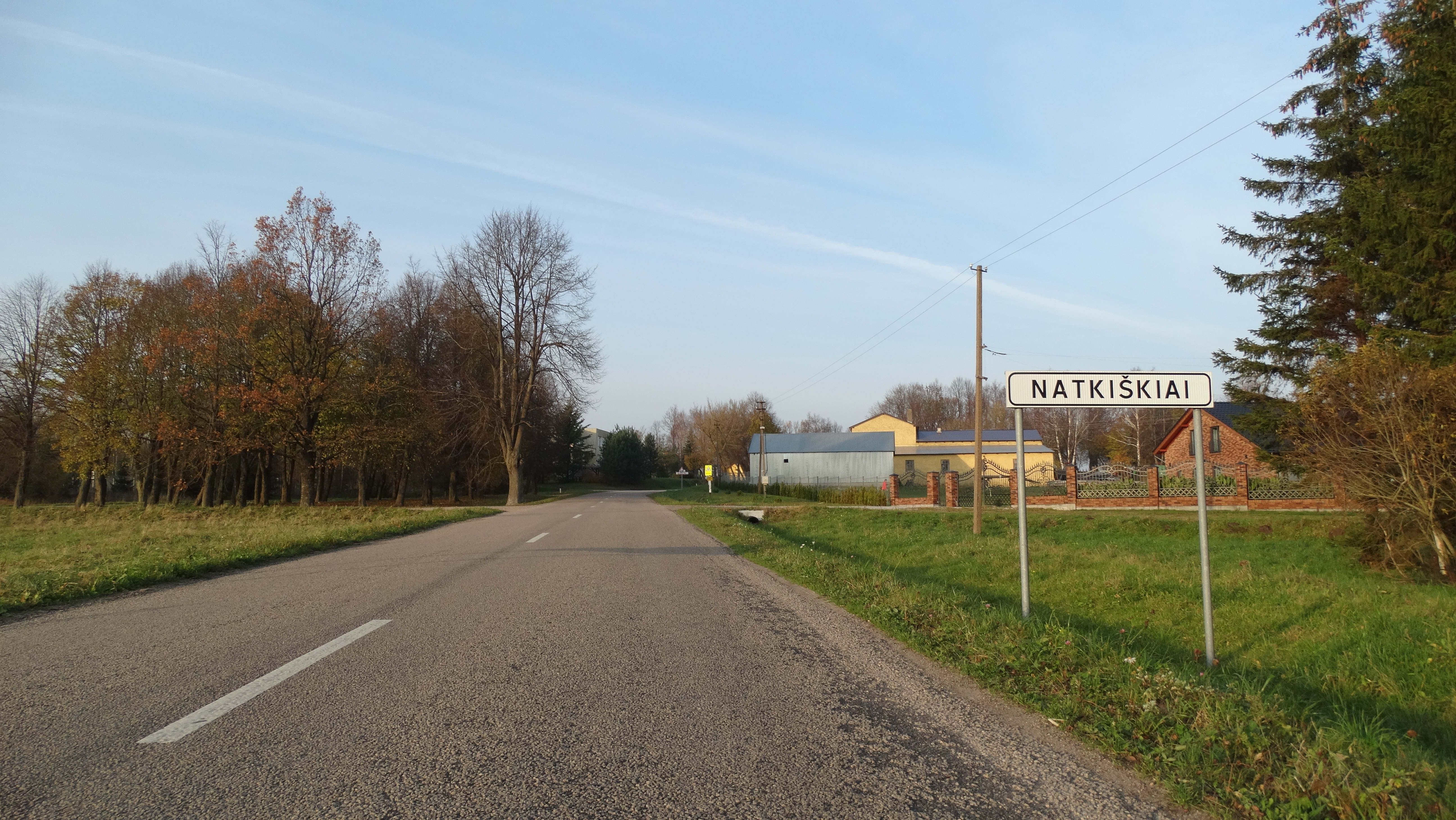 Natkiškiai, Pagėgiai Municipality, Lithuania